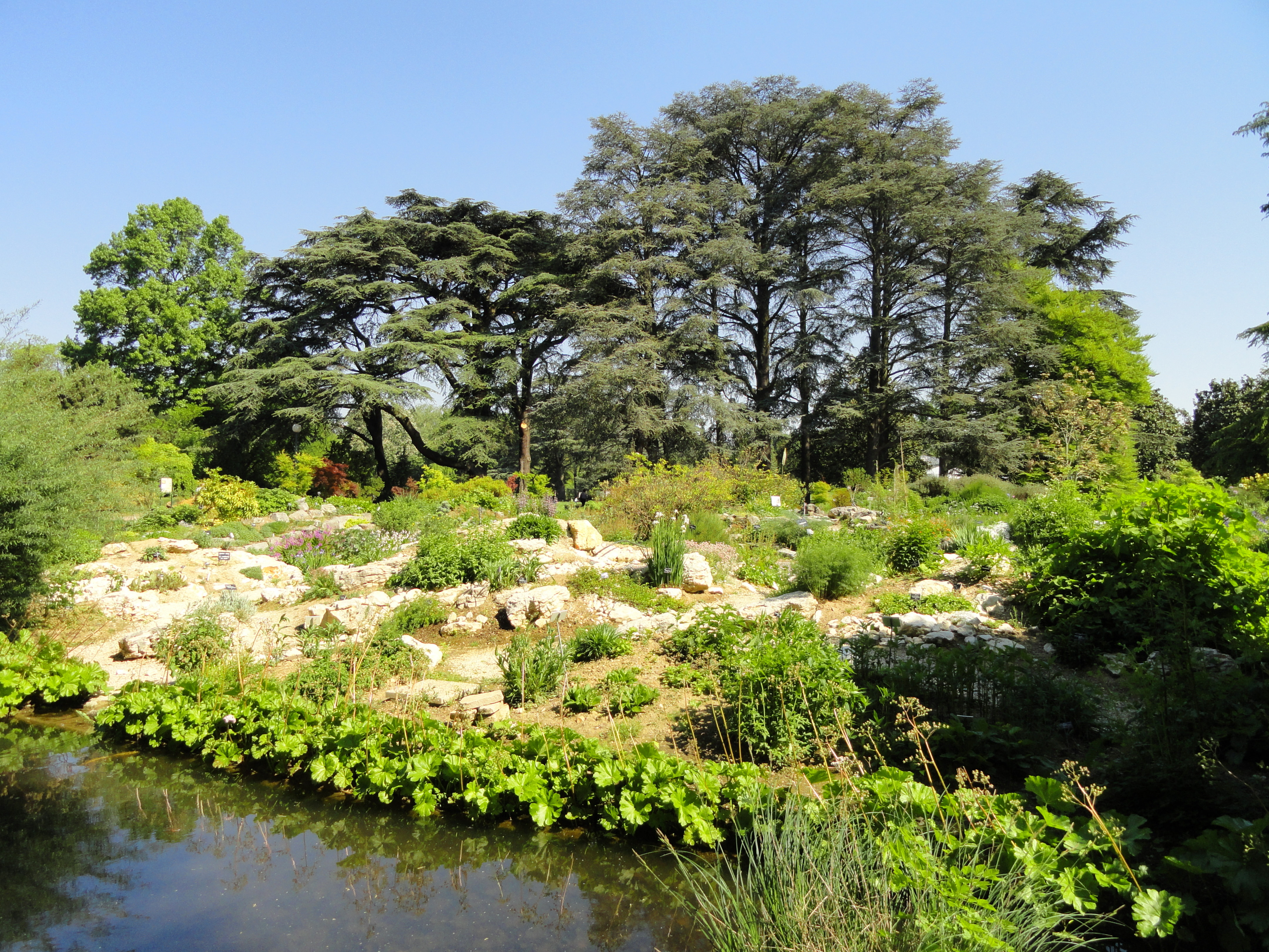 Alpine Garden, Jardin Botanique de Lyon, Lyon, France.